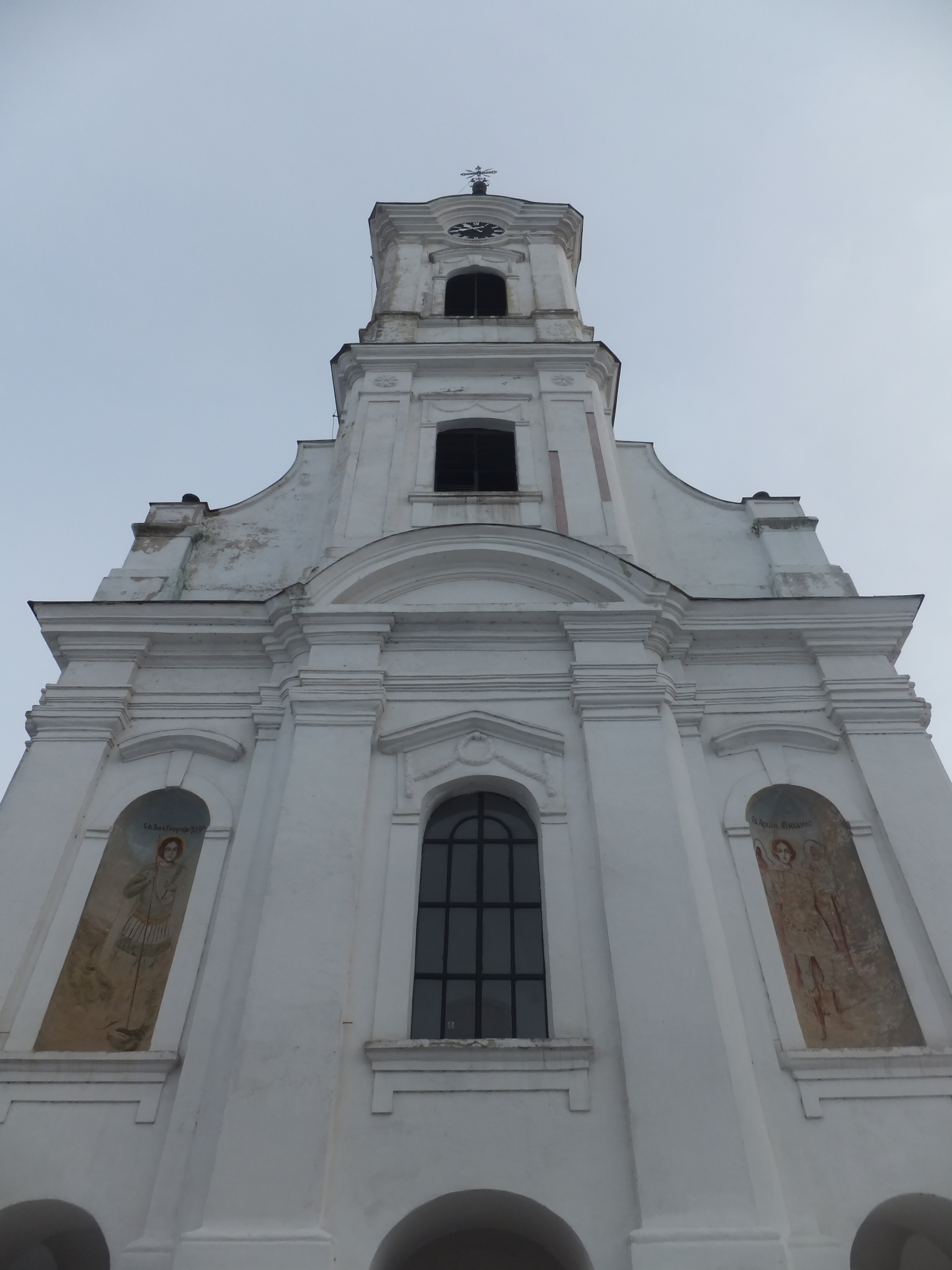 Church of Saint Nicholas in Dobanovci